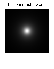 Butterworth lowpass mask for frequency domain image filtering